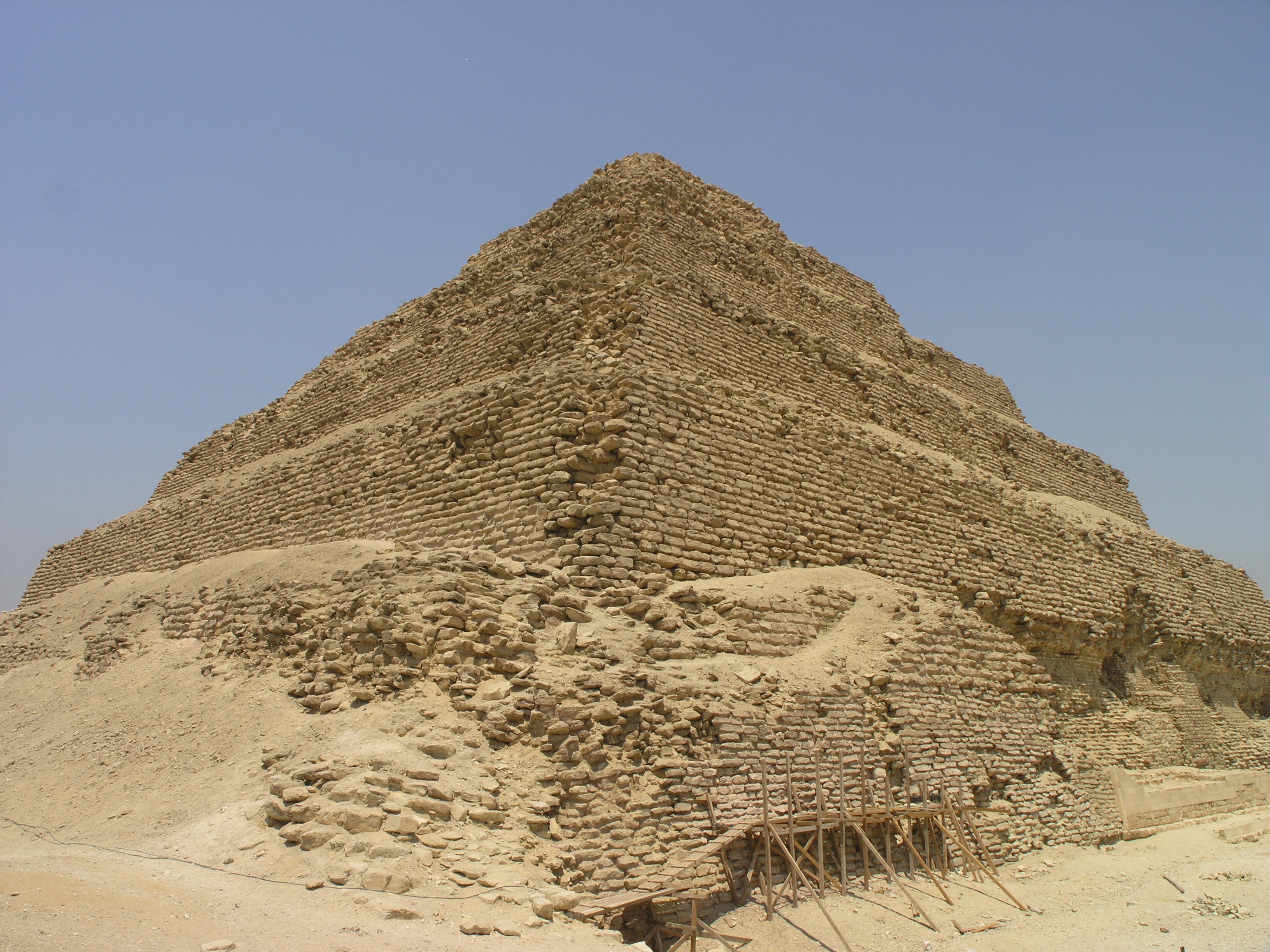 Saqqara - Pyramid of Djoser - closeup